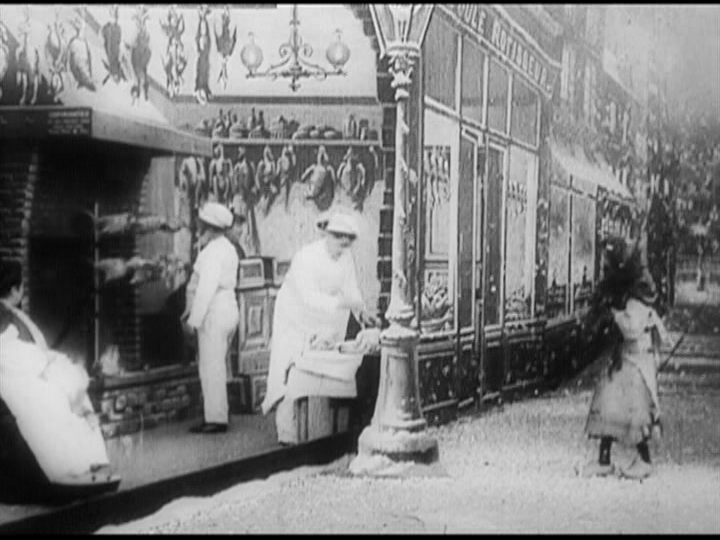 Still from Georges Méliès's film The Christmas Angel (Détresse et Charité, 1904).